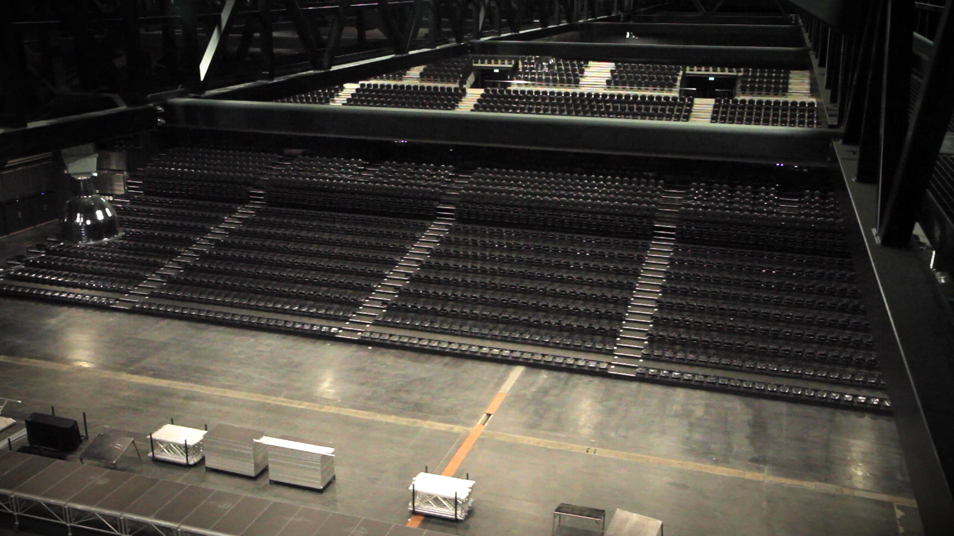 P12 Inside